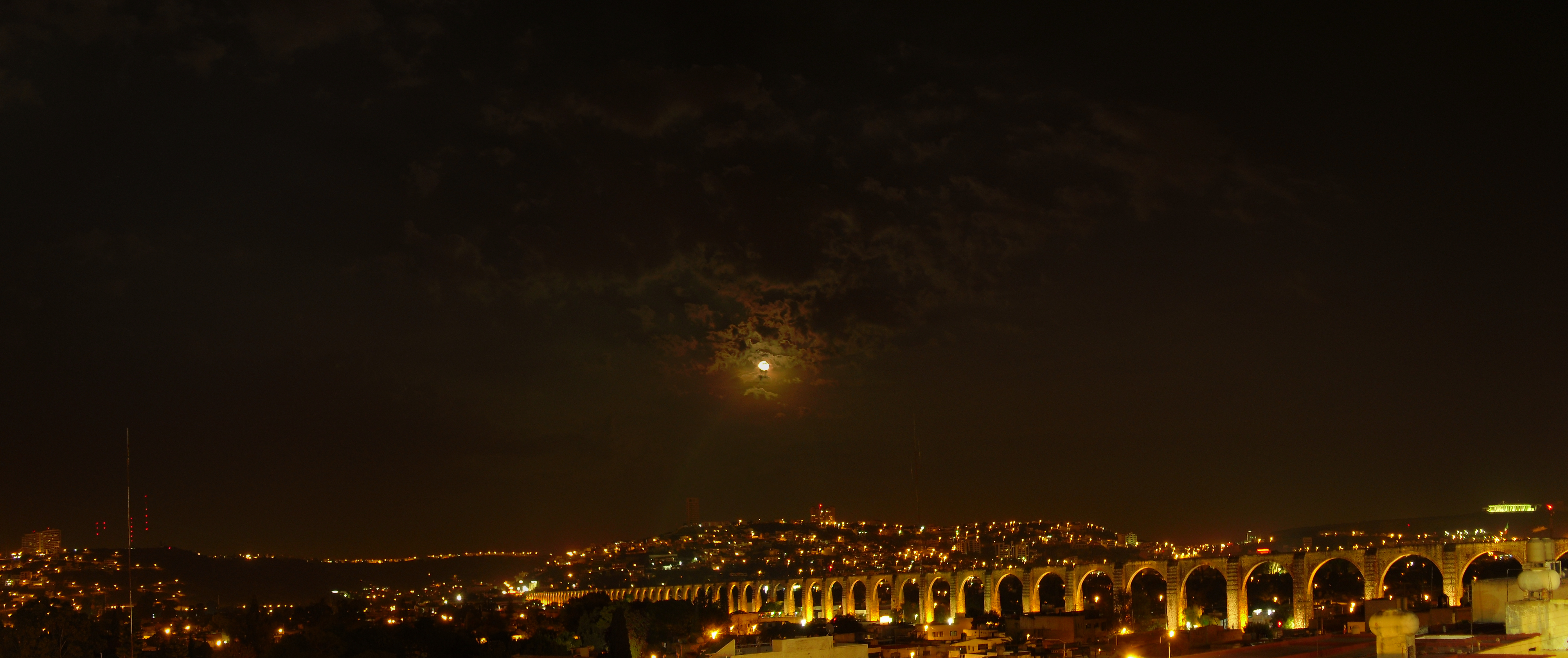 Full moon over Santiago de Querétaro, México. Aqueduct of Queretaro. October, 2010.